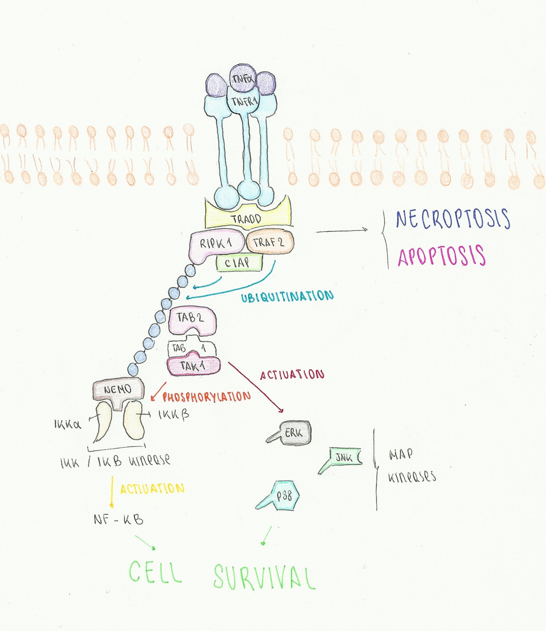 Schematic overview of pathways of cell survival mediated by RIPK1